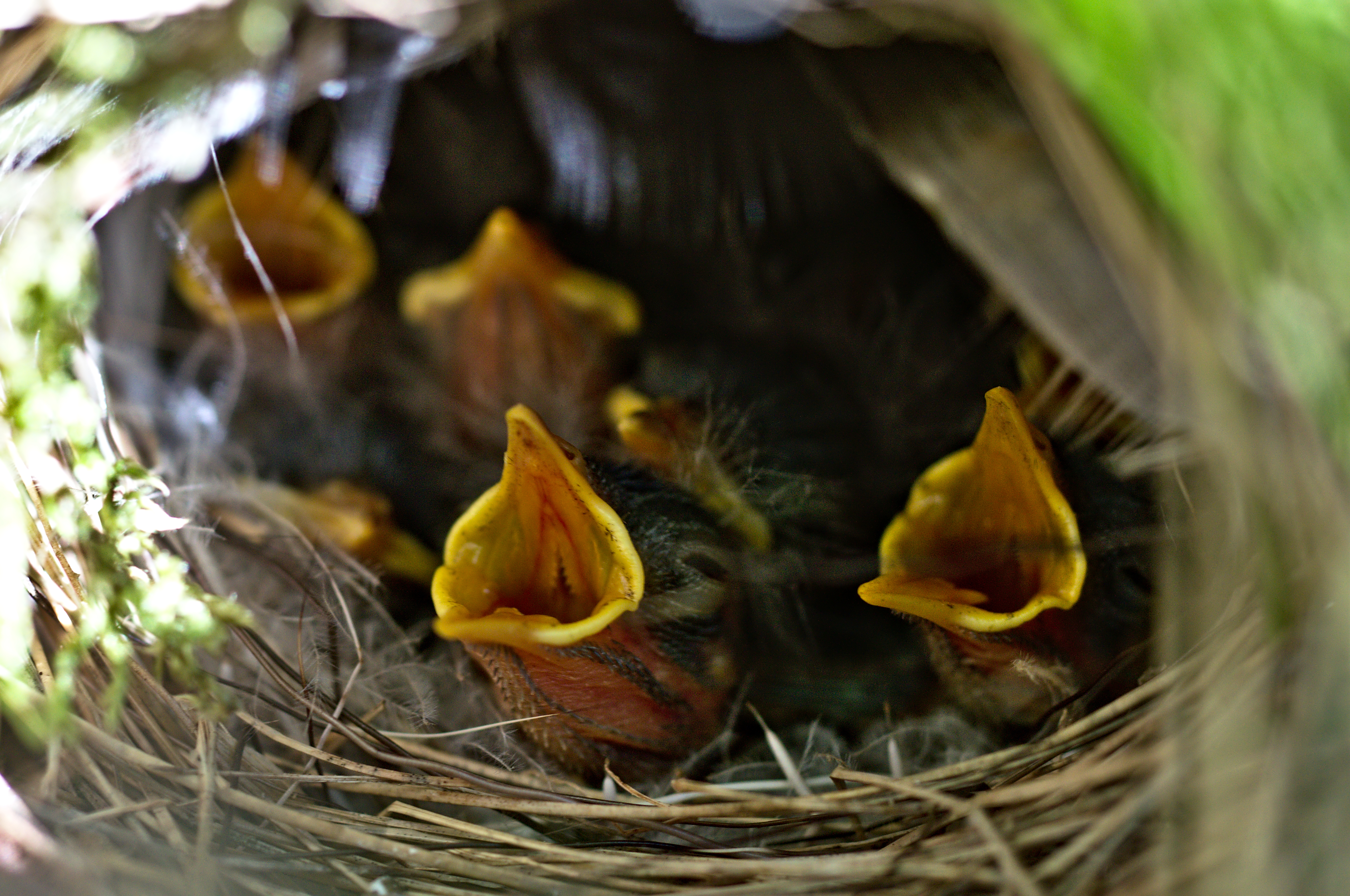 Willow warbler in a nest built on ground.